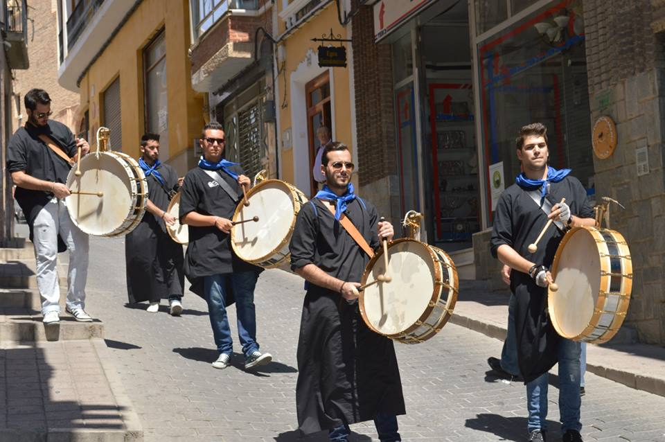 Muleños tocando el tambor